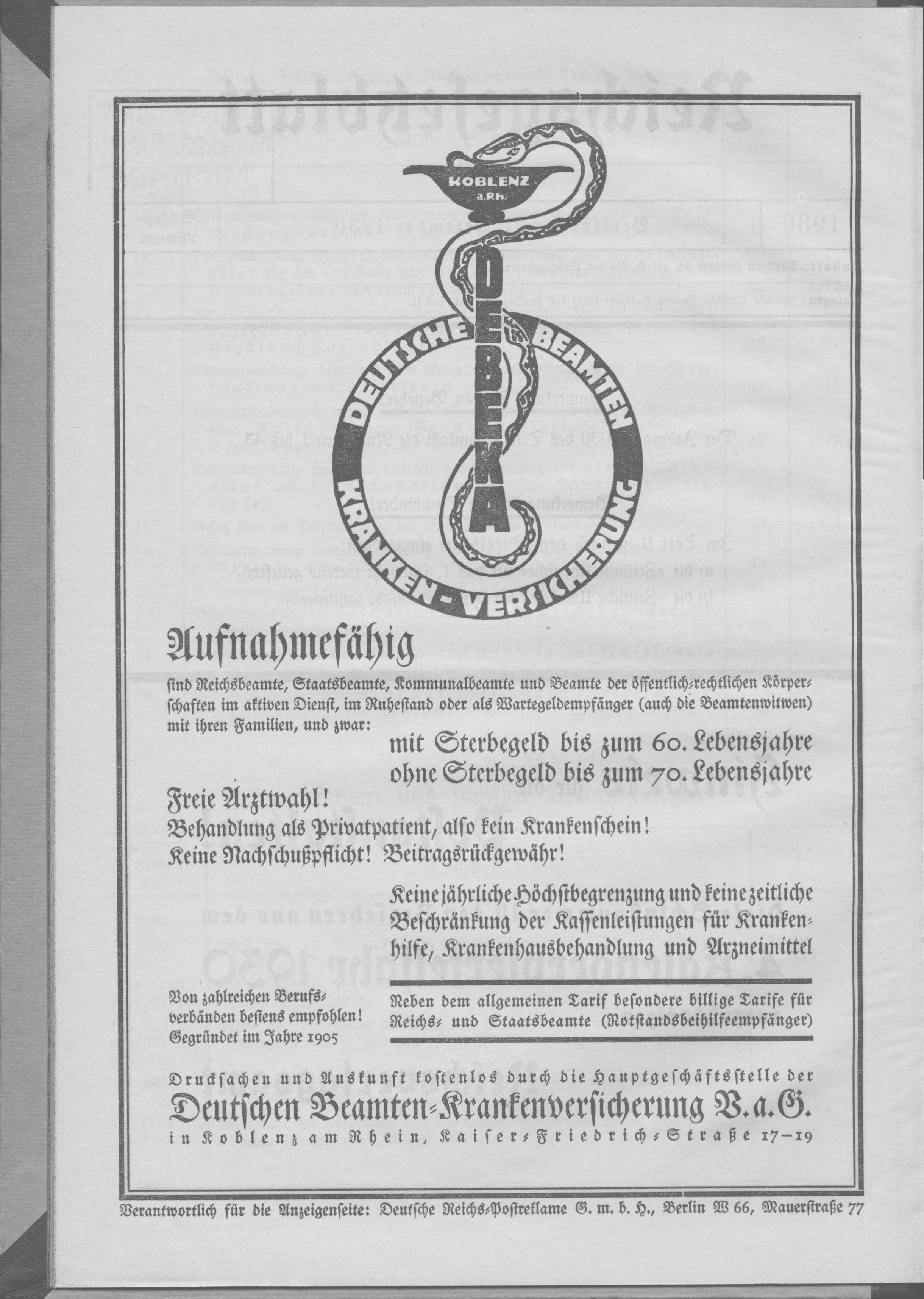 Scan from the Imperial Law Gazette of Germany, 1930, part 2